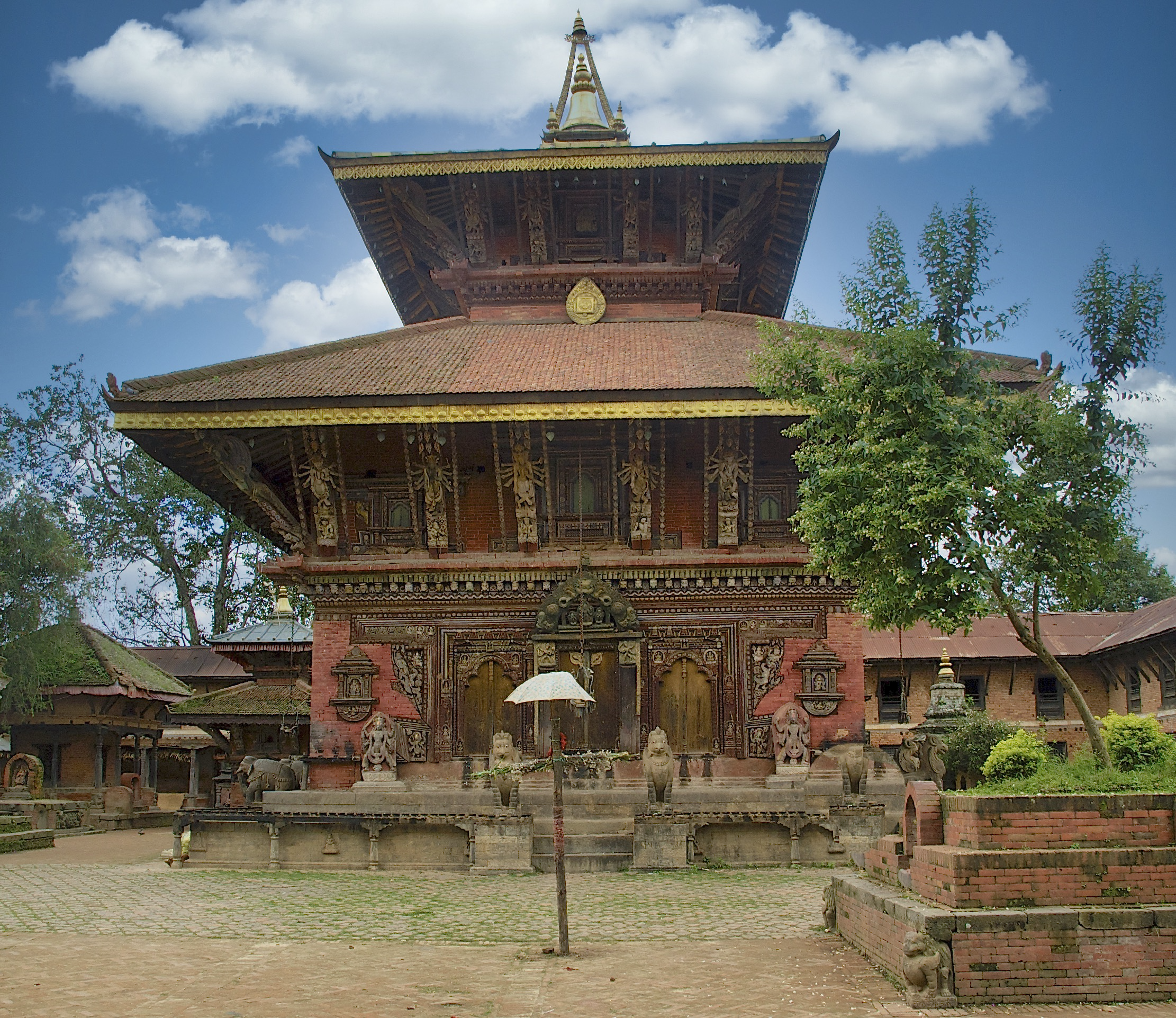 The Changu Narayan Temple near Kathmandu